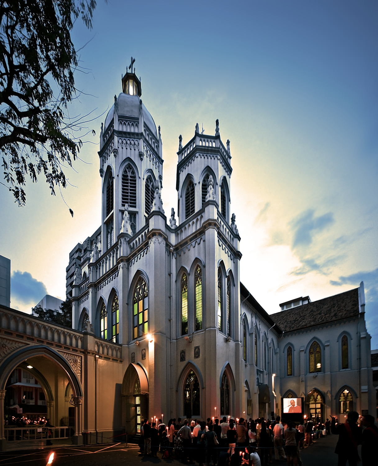 St. Joseph's Church on Victoria Street in Singapore.